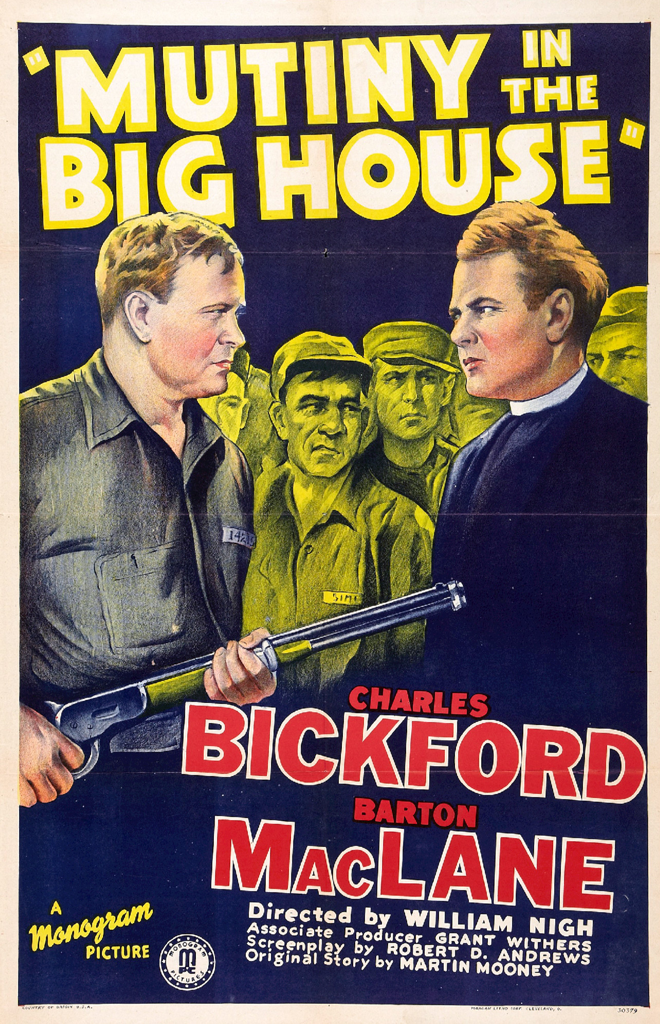 Poster for the 1939 film Mutiny in the Big House. There are no copyright marks. At bottom left is Country of origin USA. At bottom right is Morgan Litho Corp, Cleveland, O.-they printed the poster.